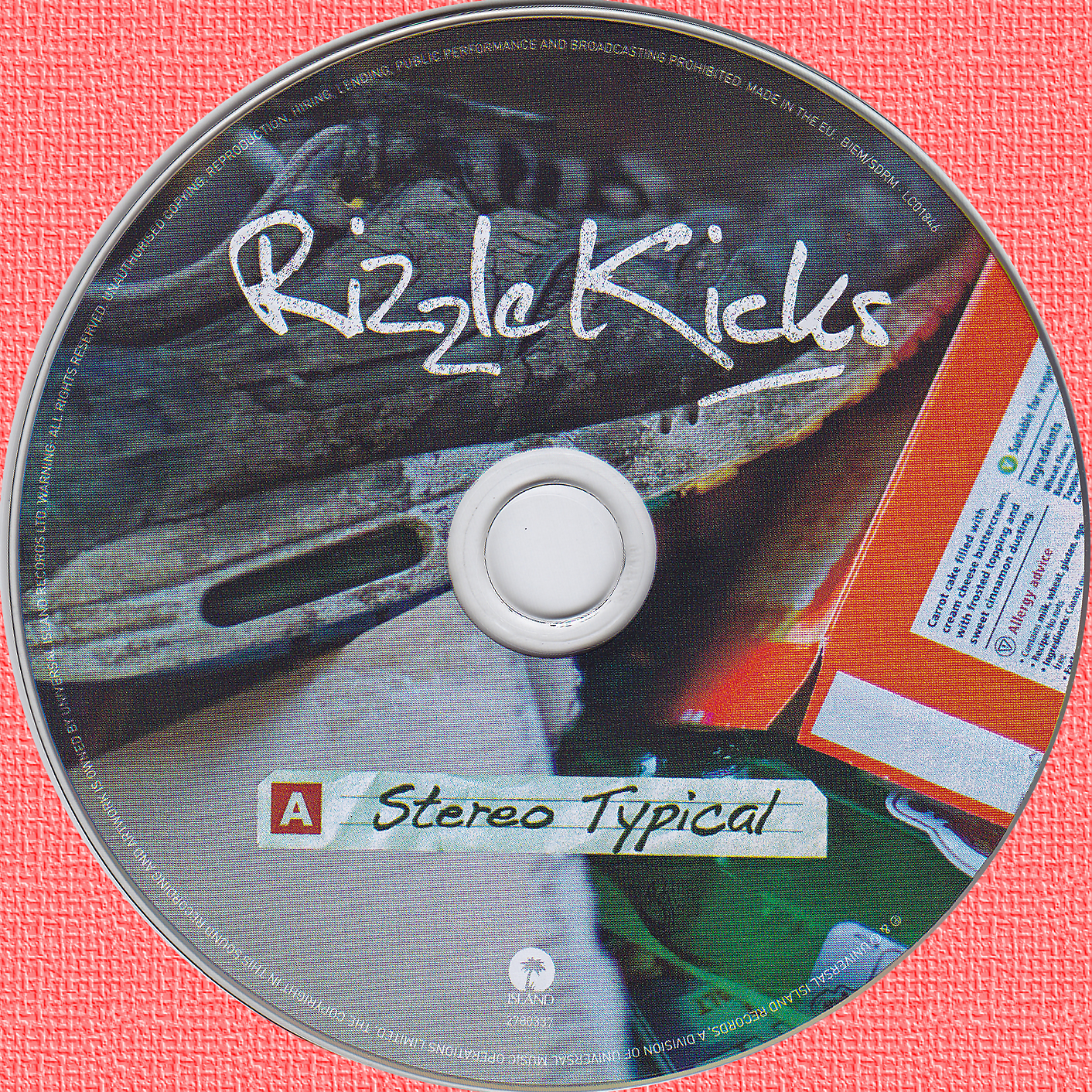 Rizzle kicks cd